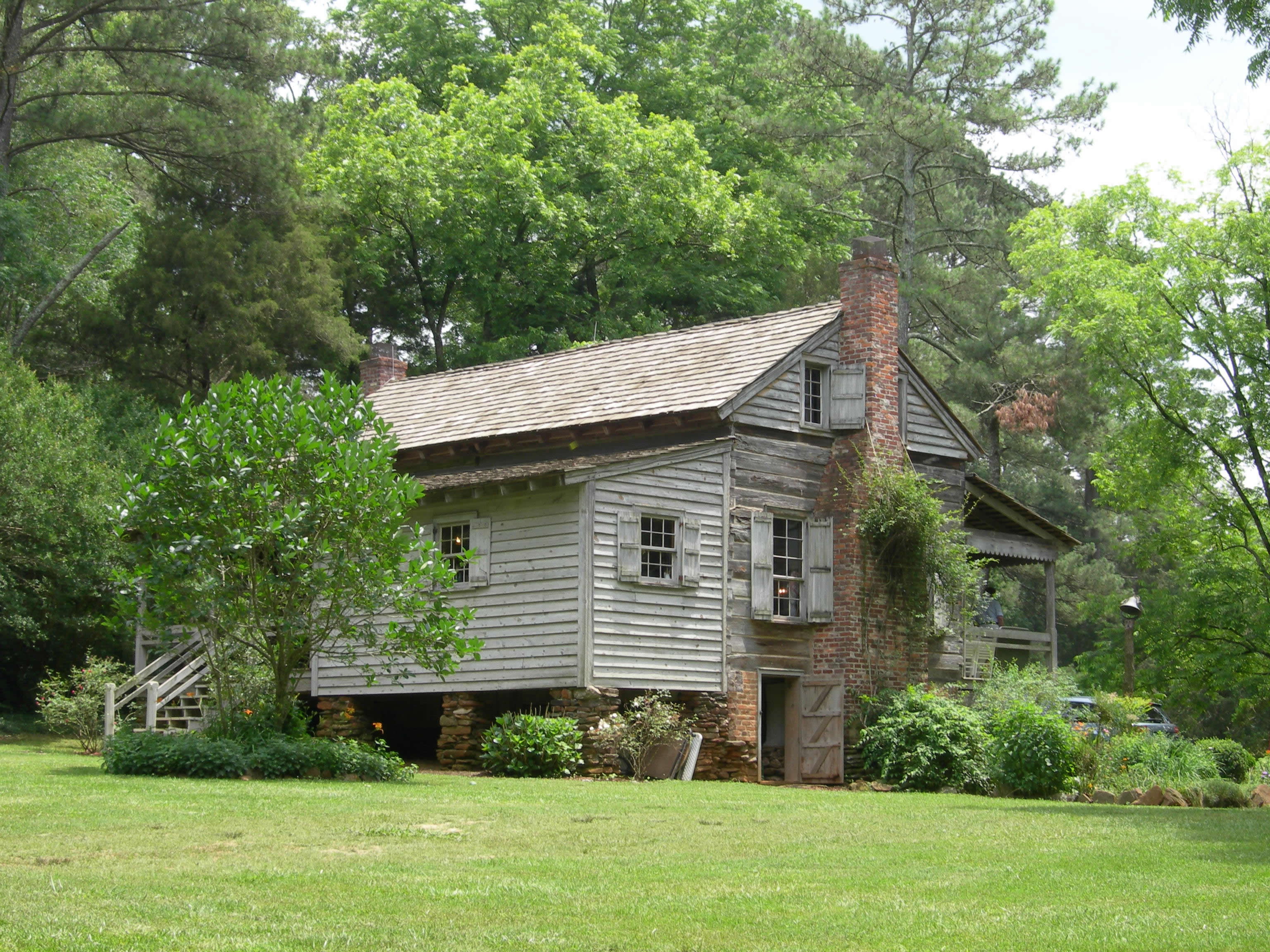 The William Harris log house, circa 1825, near Monroe, GA.